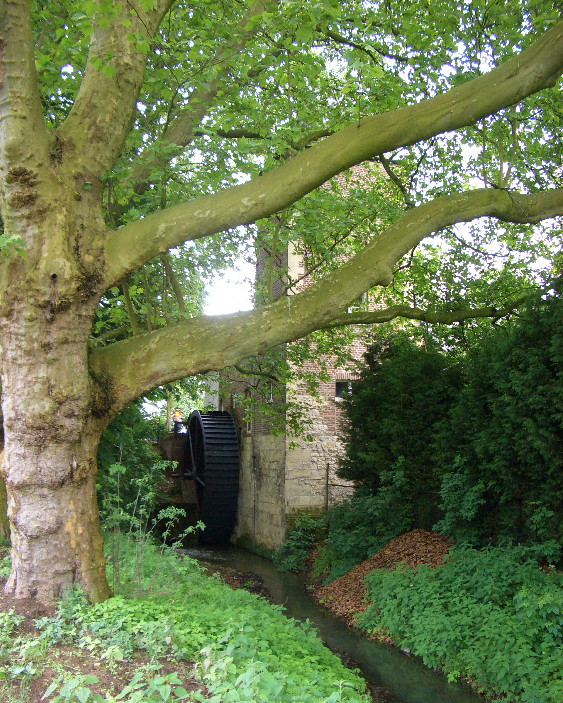 This picture of the Weltermolen in Welten was taken by me, Maarten van Wesel, in Heerlen on the 28th of May, 2006